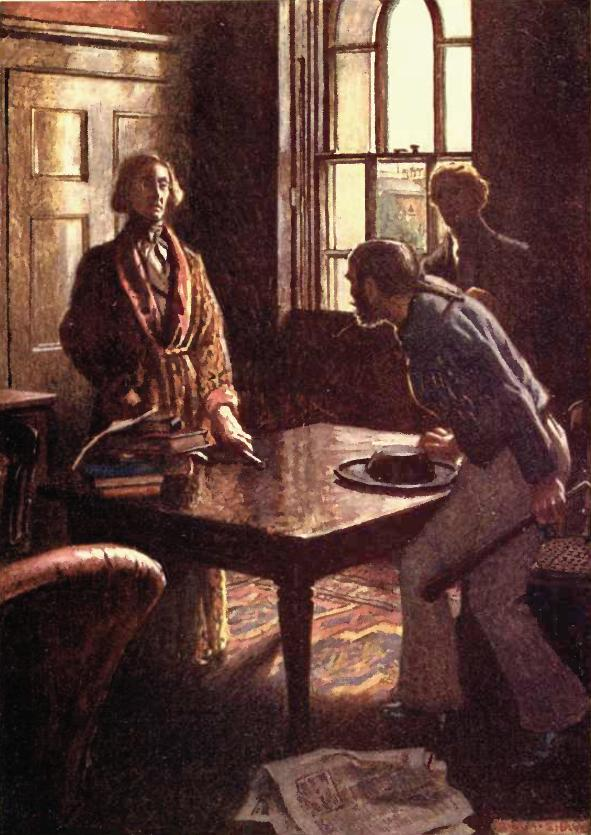 Byam Shaw's illustration for Poe's The Murders in the Rue Morgue in "Selected Tales of Mystery" (London : Sidgwick & Jackson, 1909) on the page to face p. 284 with caption "The sailor's face flushed up; he started to his feet and grasped his cudgel"